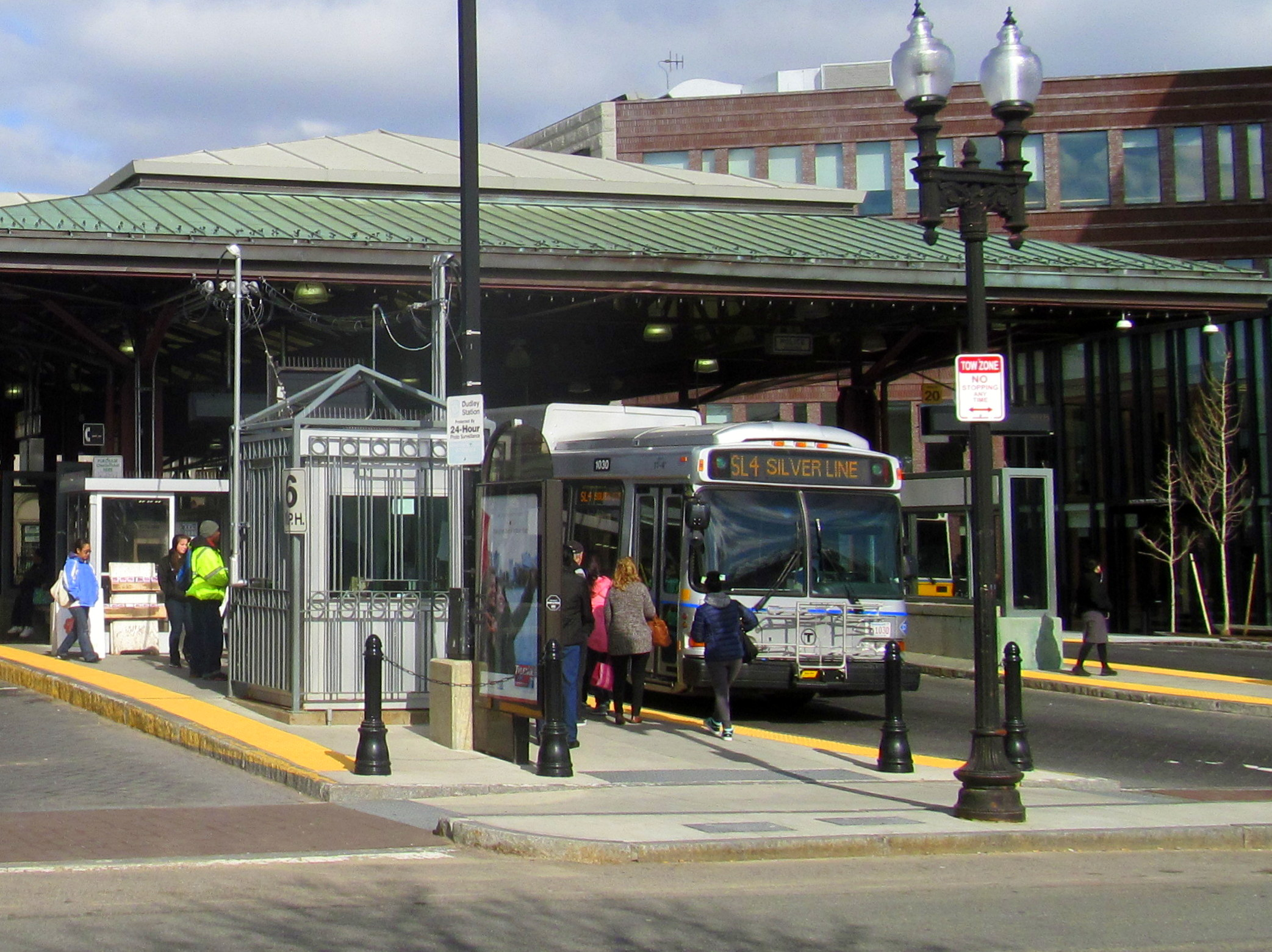 Silver Line route SL4 bus at Dudley Street Terminal in April 2015